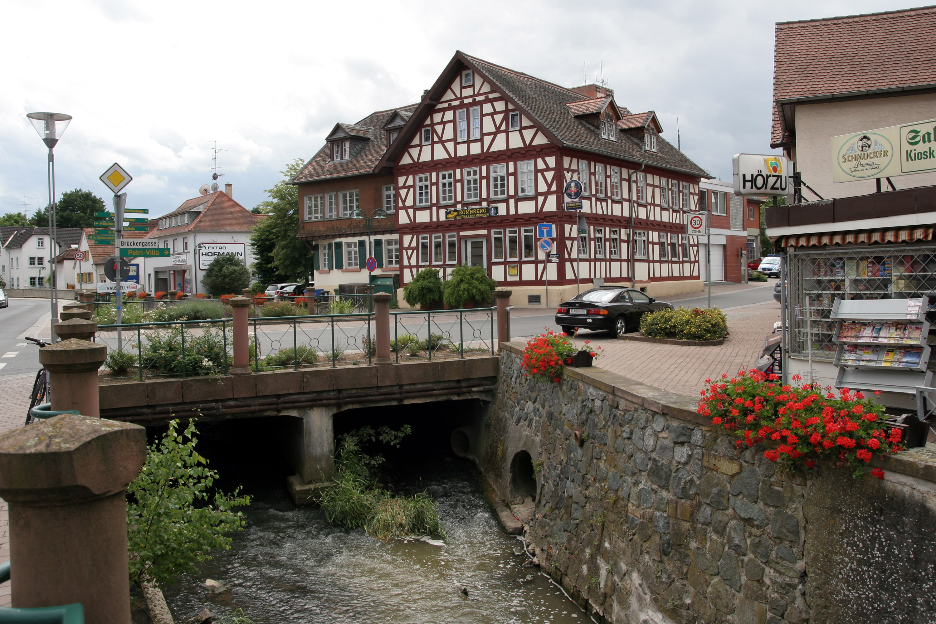 The Modau (a creek) in the city of Ober-Ramstadt (Hesse, Germany)